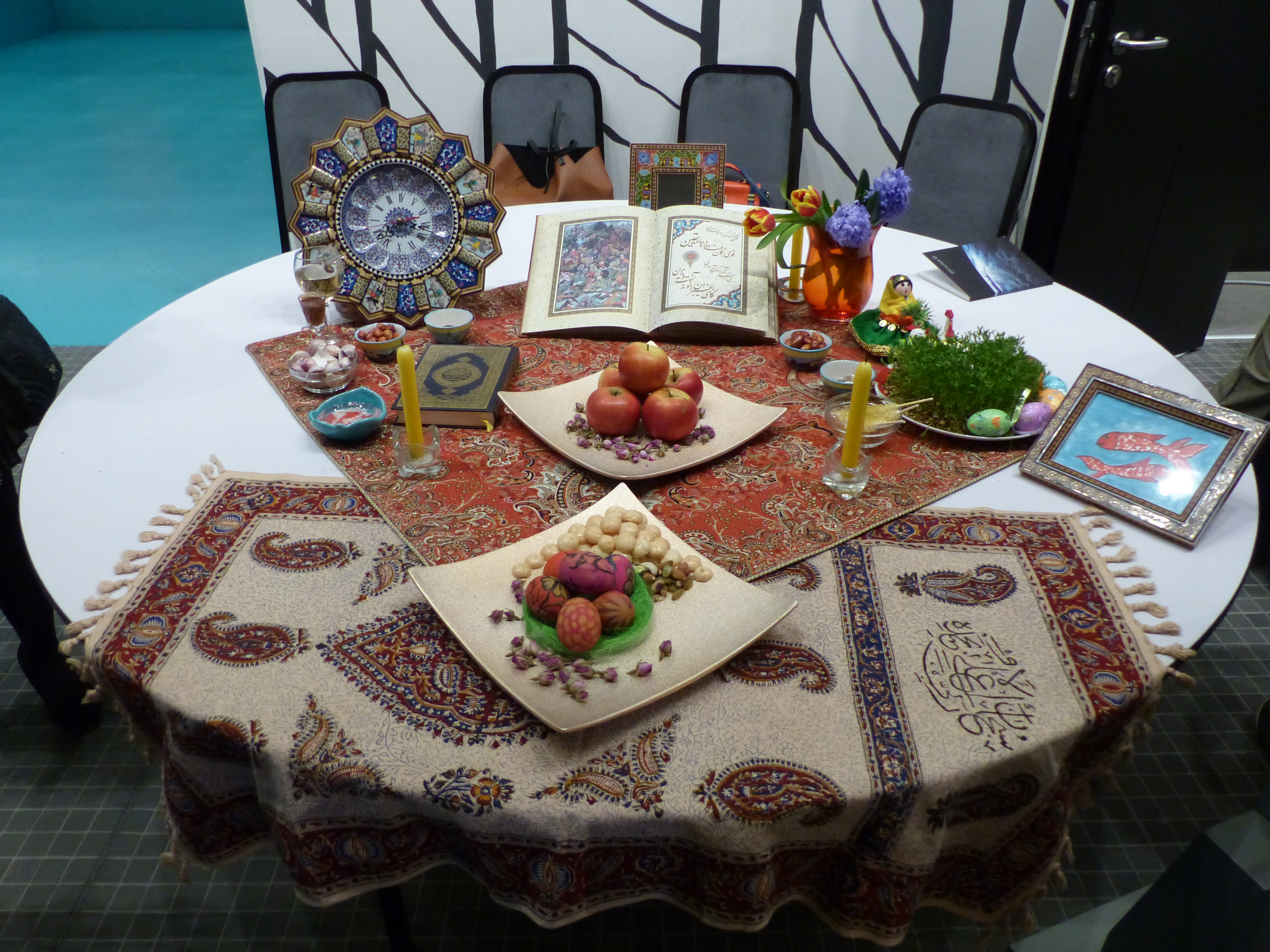 Haft-Seen. Taken on the 1st of April, 2017. Várkert Bazár, Budapest, Hungary. Central Europe. Pont Festival. The primary Haft-Seen items are: Sabzeh (سبزه) – wheat, barley, mung bean or lentil sprouts growing in a dish - symbolizing rebirth Samanu (سمنو) – sweet pudding made from wheat germ – symbolizing affluence Senjed (سنجد) – dried Persian olive – symbolizing love Seer (سیر) – garlic – symbolizing the medicine and health Seeb (سیب) – apple – symbolizing beauty Somāq (سماق) – sumac fruit – symbolizing (the color of) sunrise Serkeh (سرکه) – vinegar – symbolizing old-age and patience